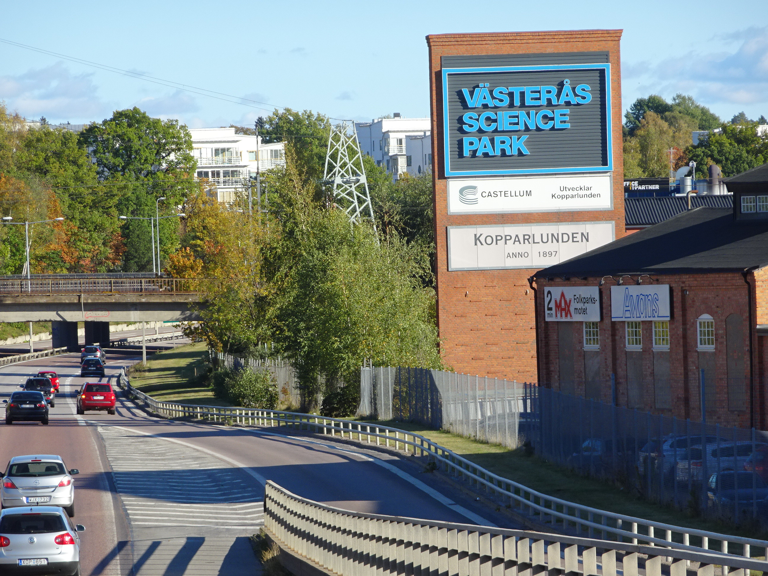 Kopparlunden is a district of Västerås, Sweden close to E18. Västerås Science Park is a technology park with companies within Västmanland with the intent of creating economic development and improved knowledge.